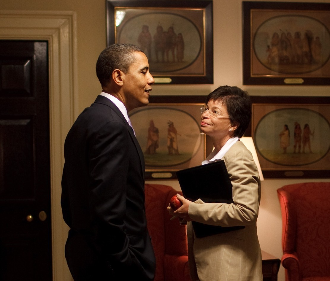 President Barack Obama and Senior Advisor Valerie Jarrett chat outside the Oval Office in the White House, June 12, 2009. (Official White House Photo by Pete Souza) License on Flickr (2011-01-22): United States Government Work Flickr tags: Washington, D.C., USA